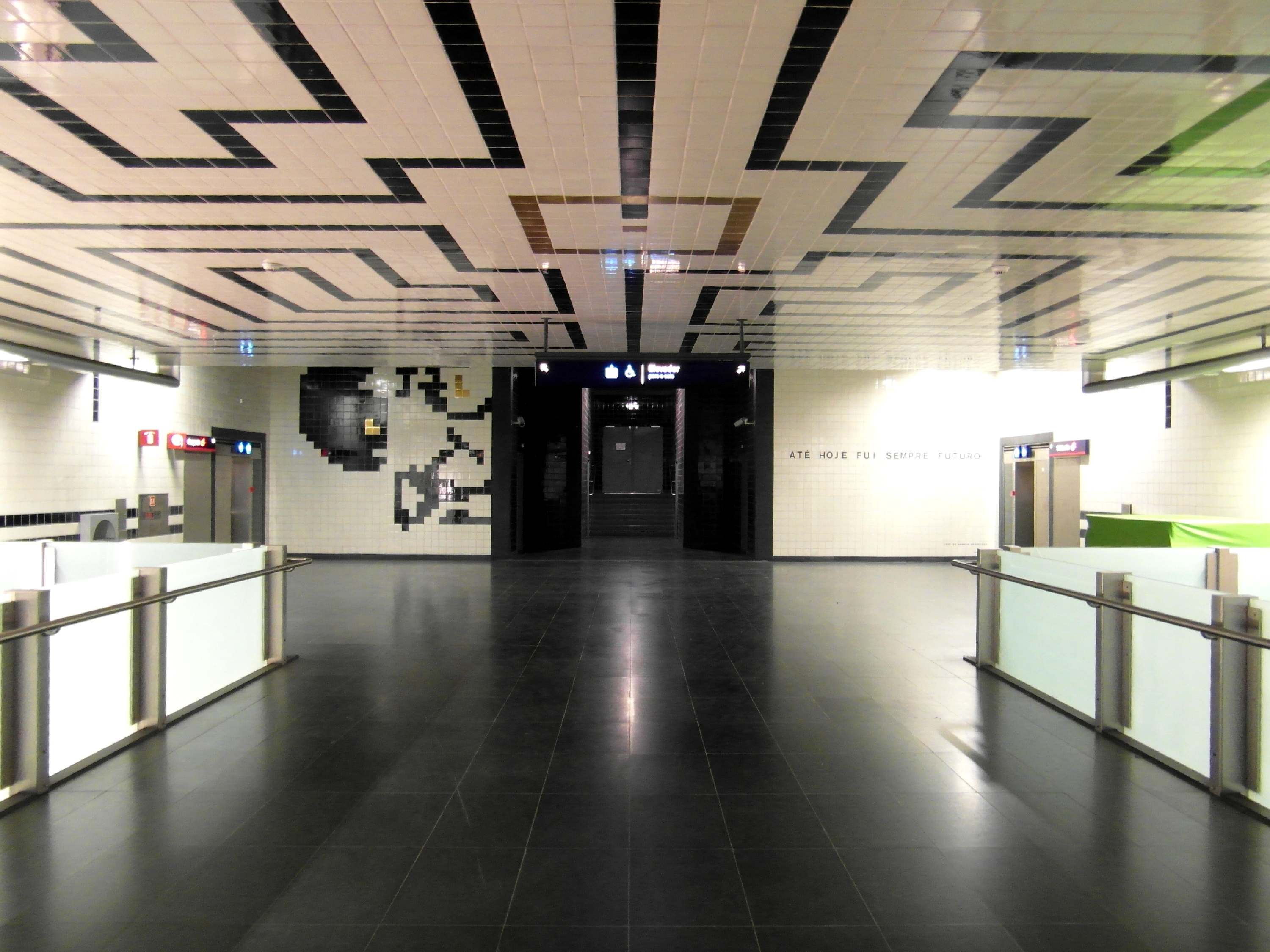 Saldanha underground station, Lisboa, Portugal